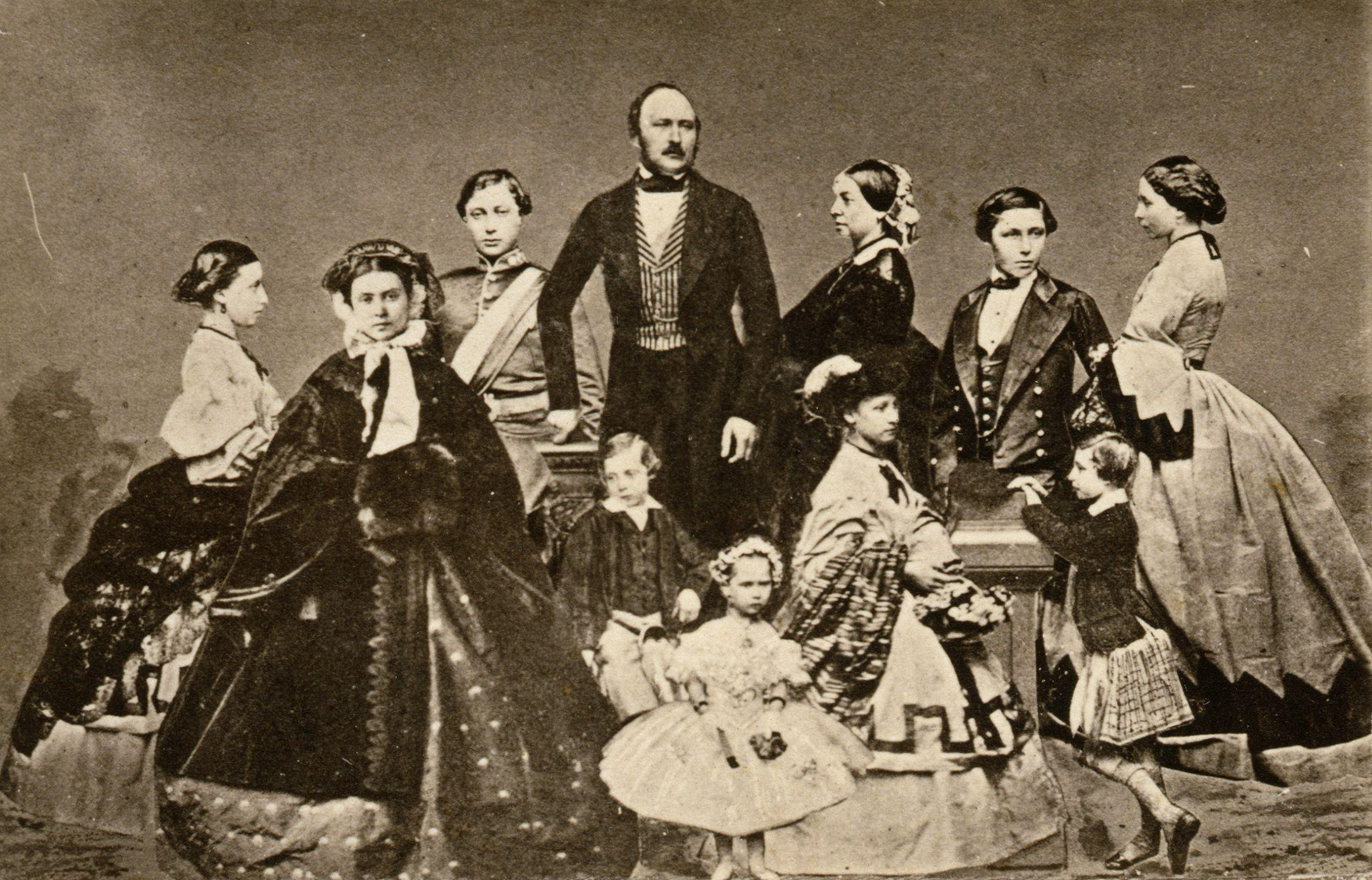 Prince Albert of Saxe-Coburg-Gotha, Queen Victoria and their children